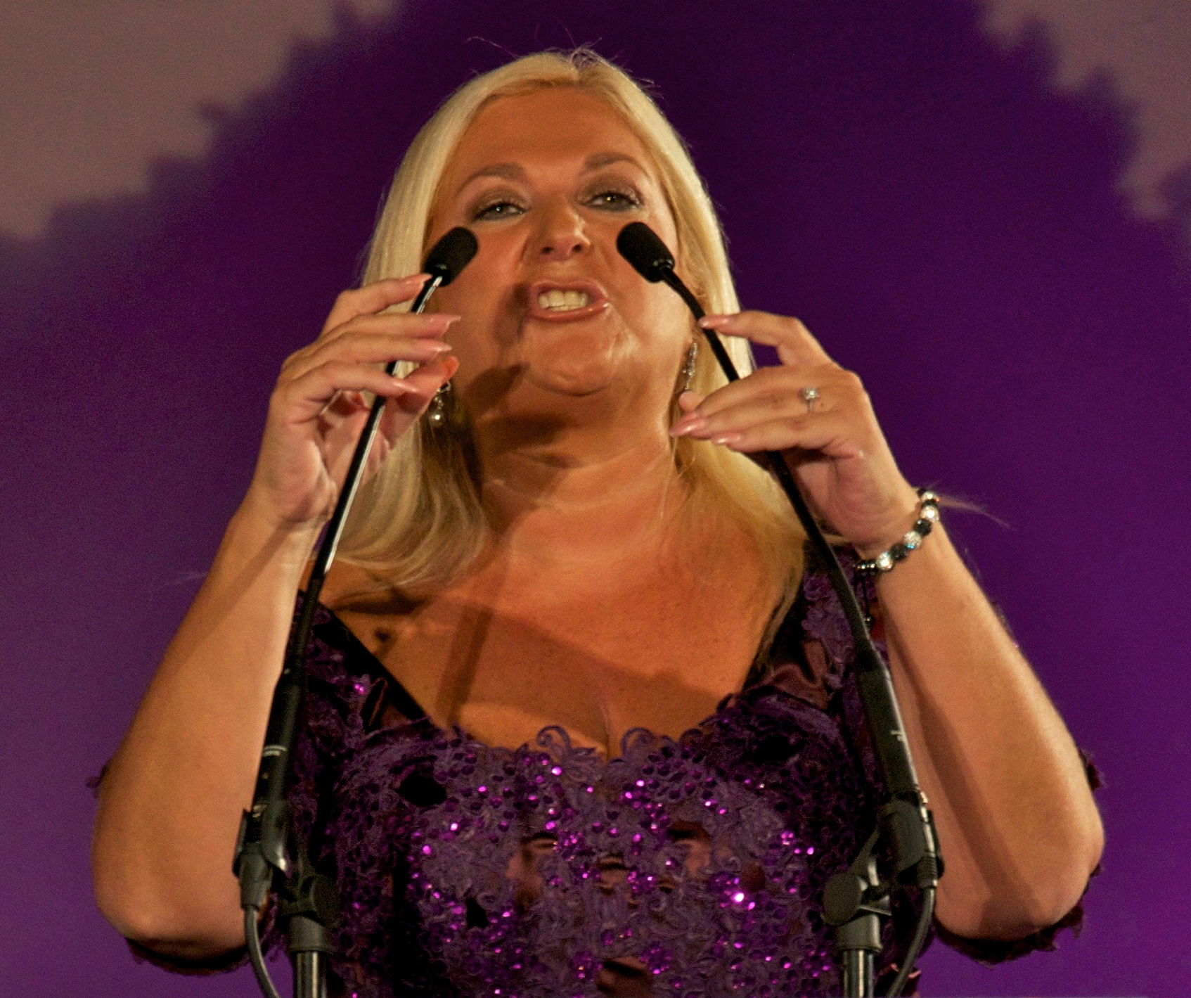 crop of Vanessa Feltz from image of her at Stonewall Awards 2011 podium titled 'Vanessa Feltz' and described as 'Journalist of the Year - Joint award • Vanessa Feltz (Radio 2, Daily Express, BBC London) • Matthew Todd (Attitude)'